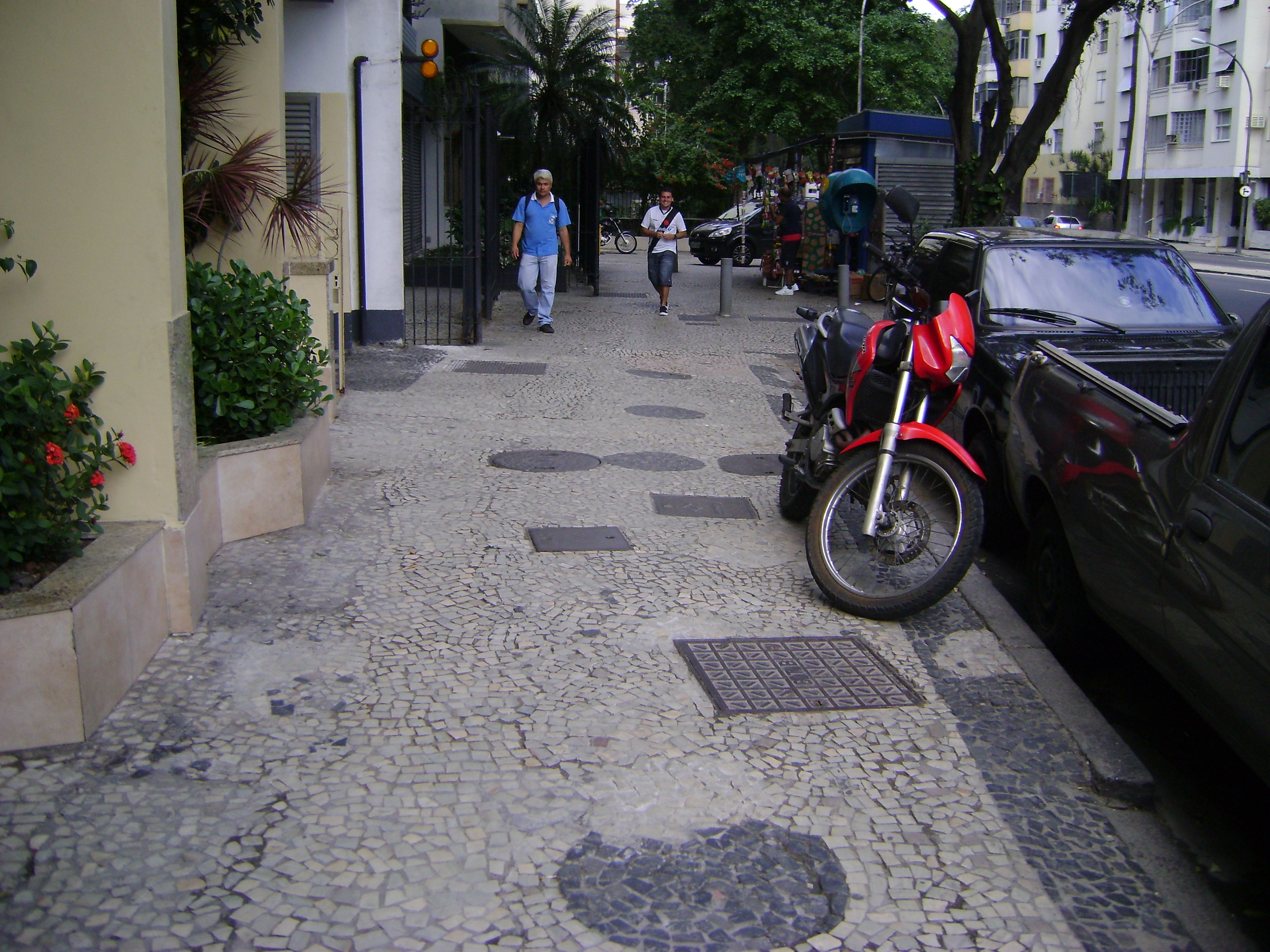 Pinheiro Machado Street, in Laranjeiras, Rio de Janeiro, Brazil.